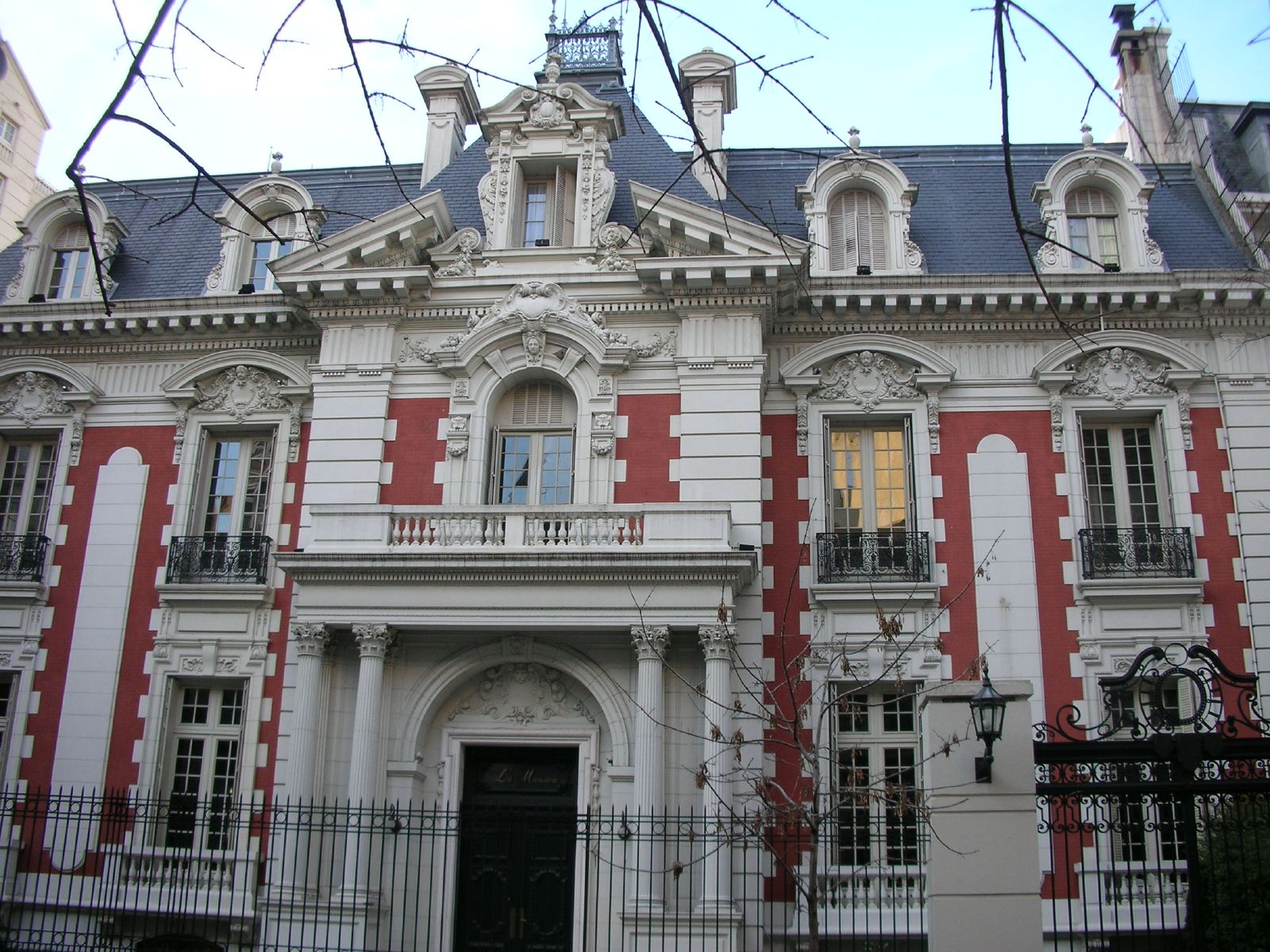 Former Álzaga Unzué mansion, today an annex of the Four Seasons Hotel in Buenos Aires (the Park Hyatt, from 1992 to 2002).